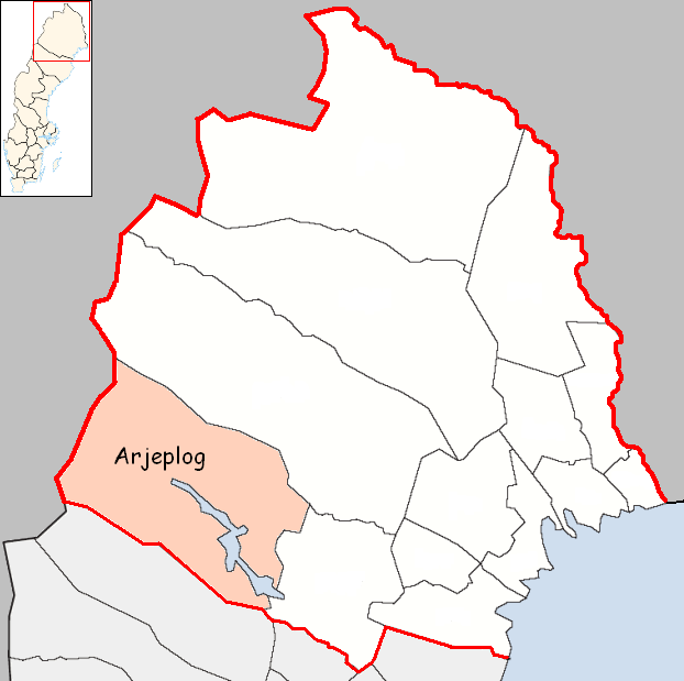 Arjeplog Municipality in Norrbotten County Designed by me. Mere outlines are a PD source from